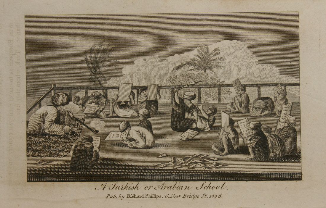 "A Turkish or Arabian School," from 'Geography on a Popular Plan', by Rev J. Goldsmith, published by Richard Phillips, London, 1811 Source: ebay, Jan. 2008